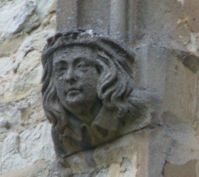 Carving, St Michael's Church, Betchworth Stone carving on the exterior west wall of this East Surrey parish church.